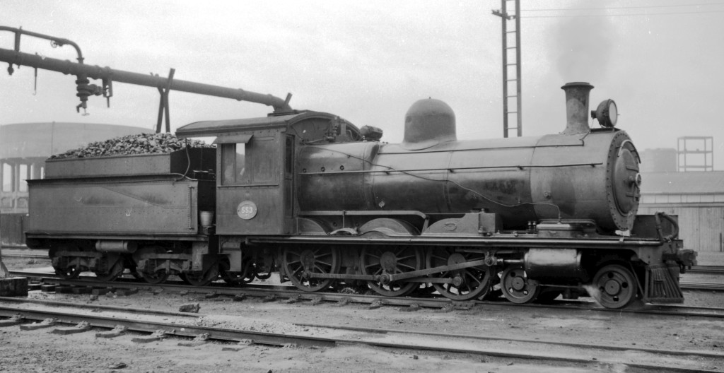 Ex Oranje-Vrijstaat Gouwermentspoorwegen Class 6 no. 88 (4-6-0)Ex Central South African Railways Class 6-L2 364 (4-6-0)South African Railways Class 6C 553 (4-6-0)Location: Paardeneiland